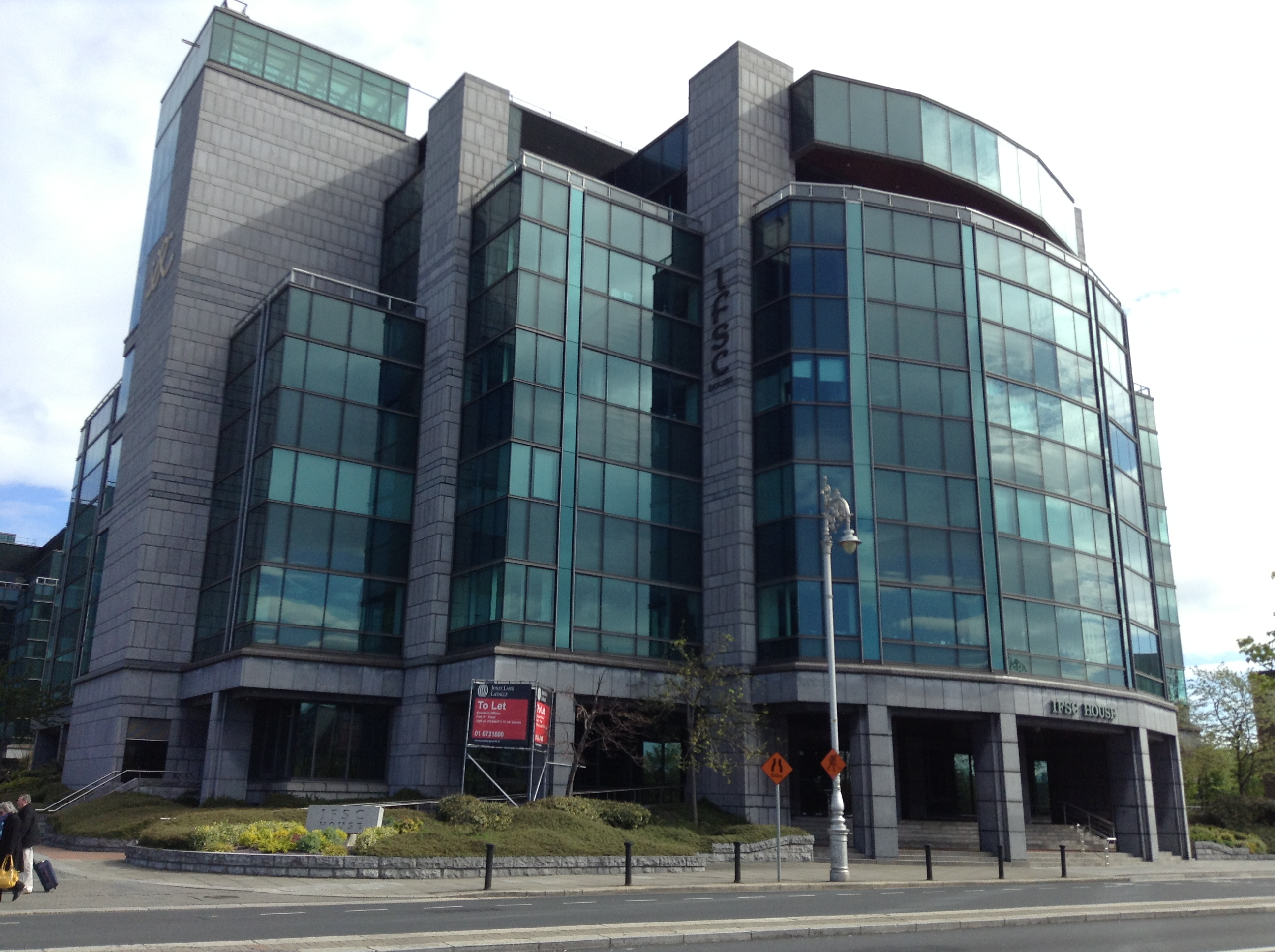 IFSC of Dublin (Ireland).